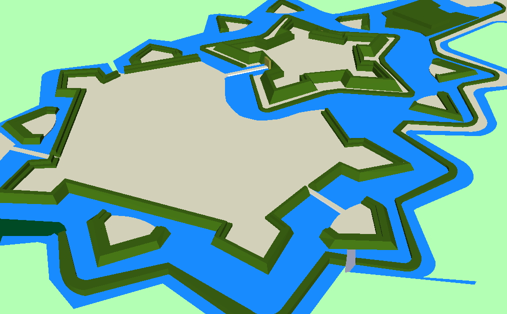 Moers/Meurs fortifications 1604 Germany